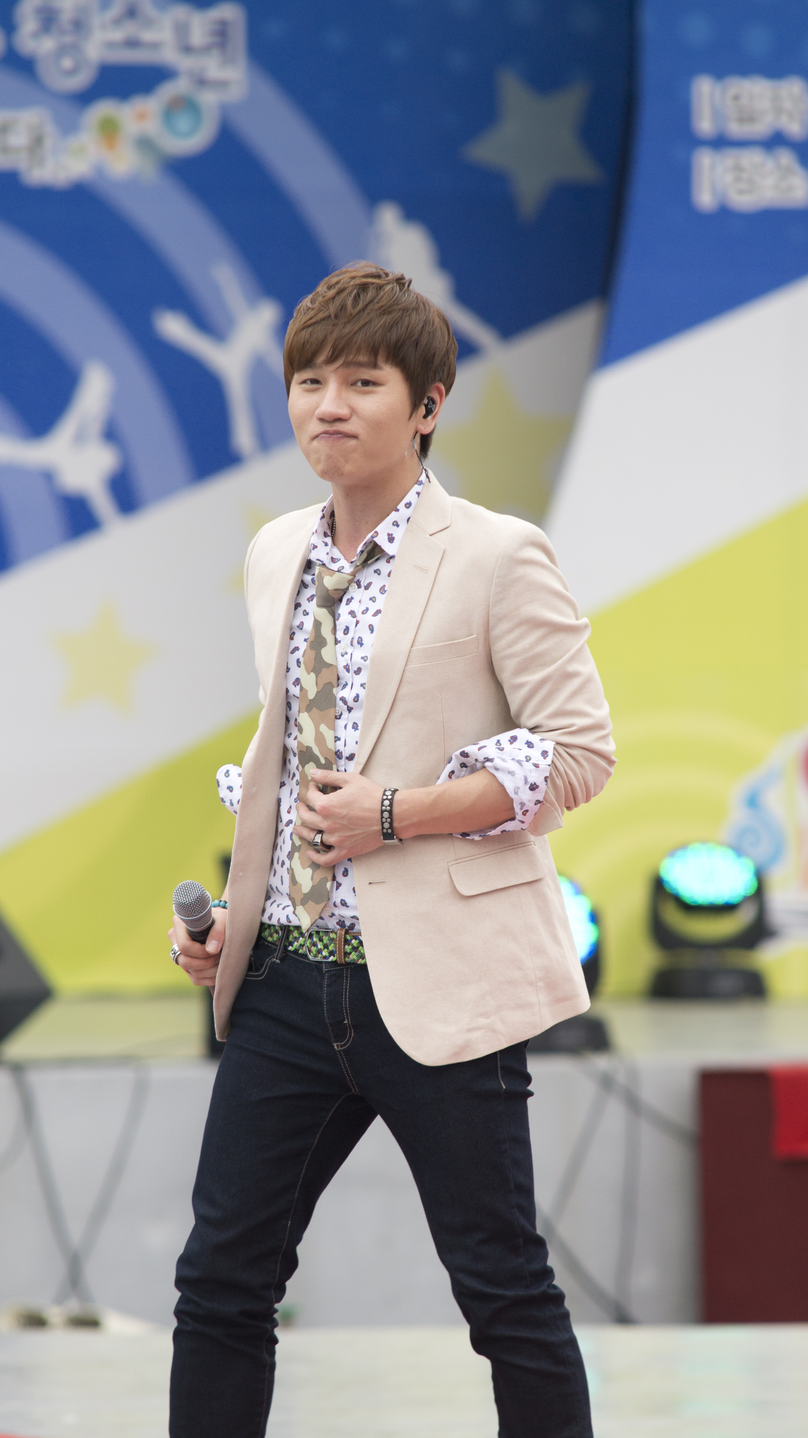 K.Will on May 14, 2013